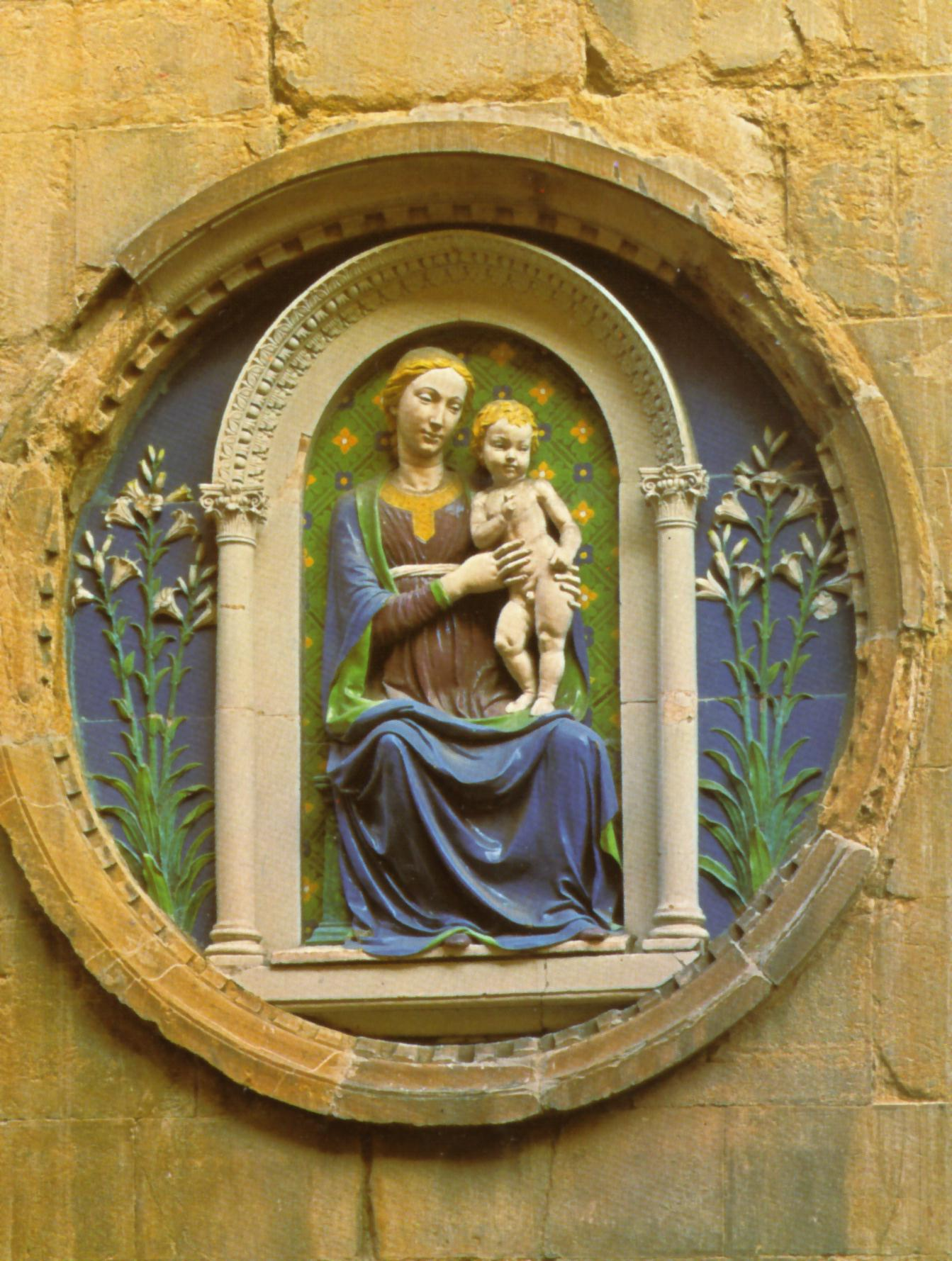 Luca della Robbia: Madonna and child 1455-1460. Glaced terracotta, diameter c. 183 cm. Orsanmichele Florence